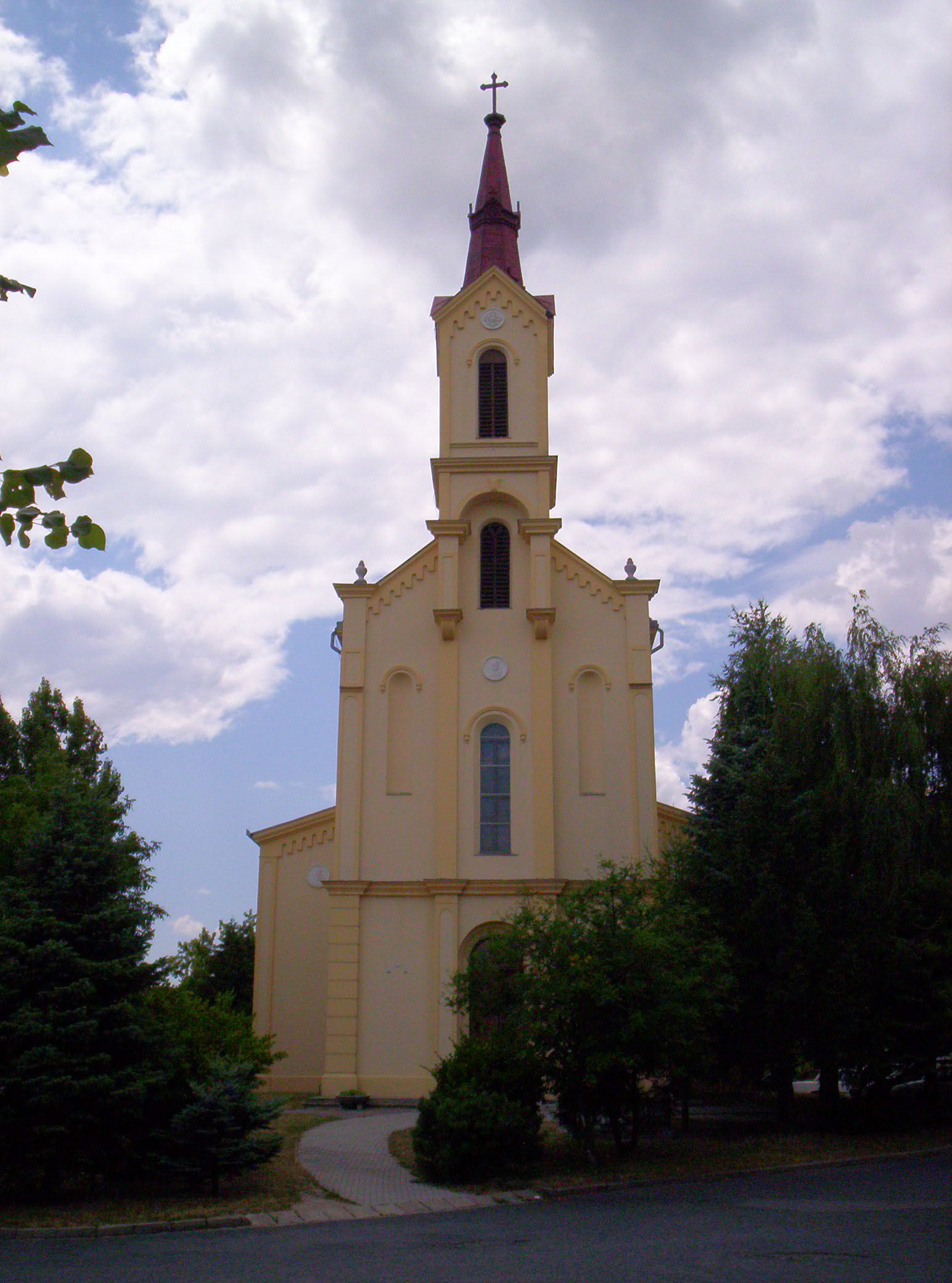 St Anne church in Pápa, Hungary A pápai Szent Anna-templom